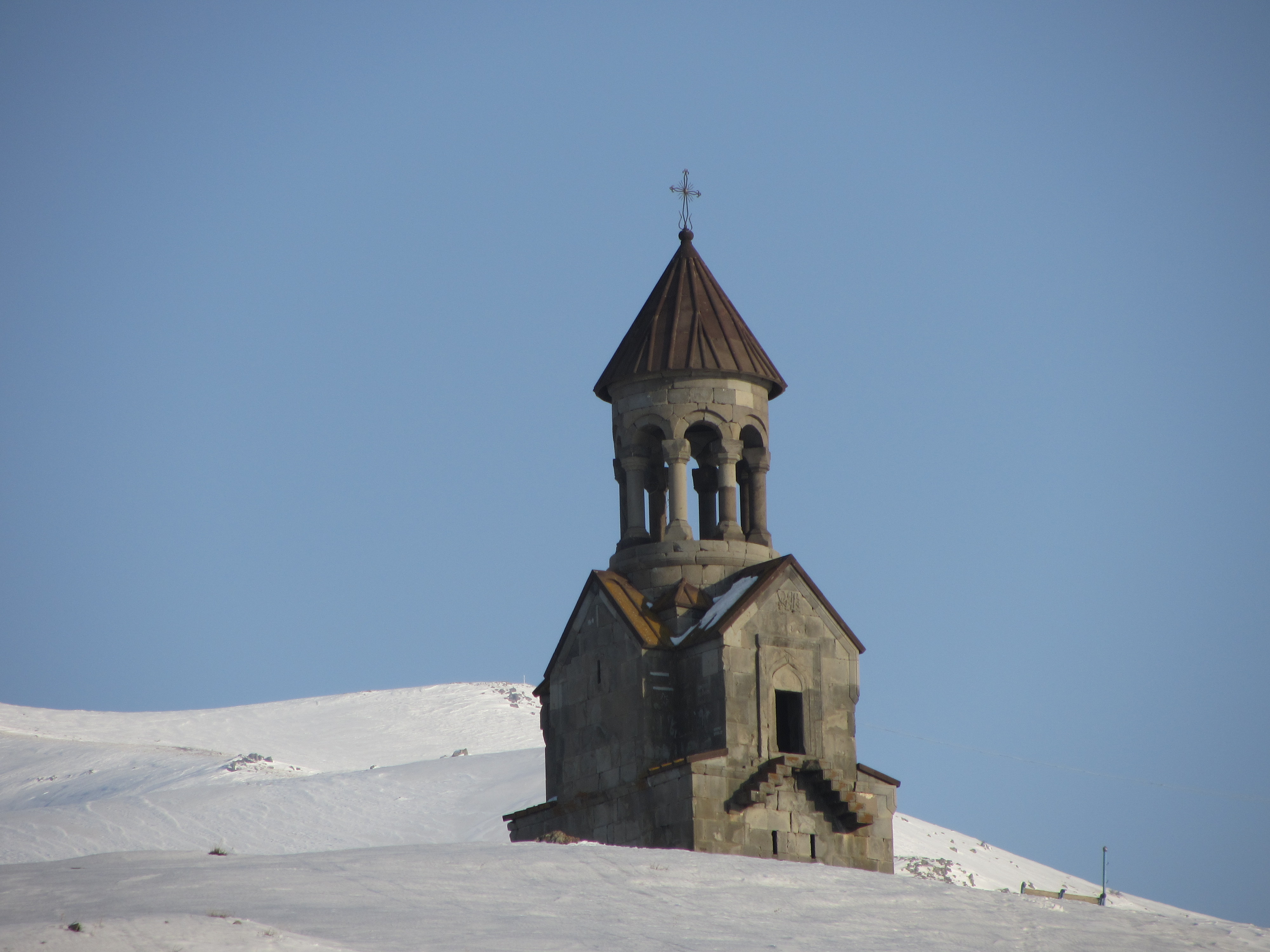 Kaptavank Church, Kaputan, 1349 36/21